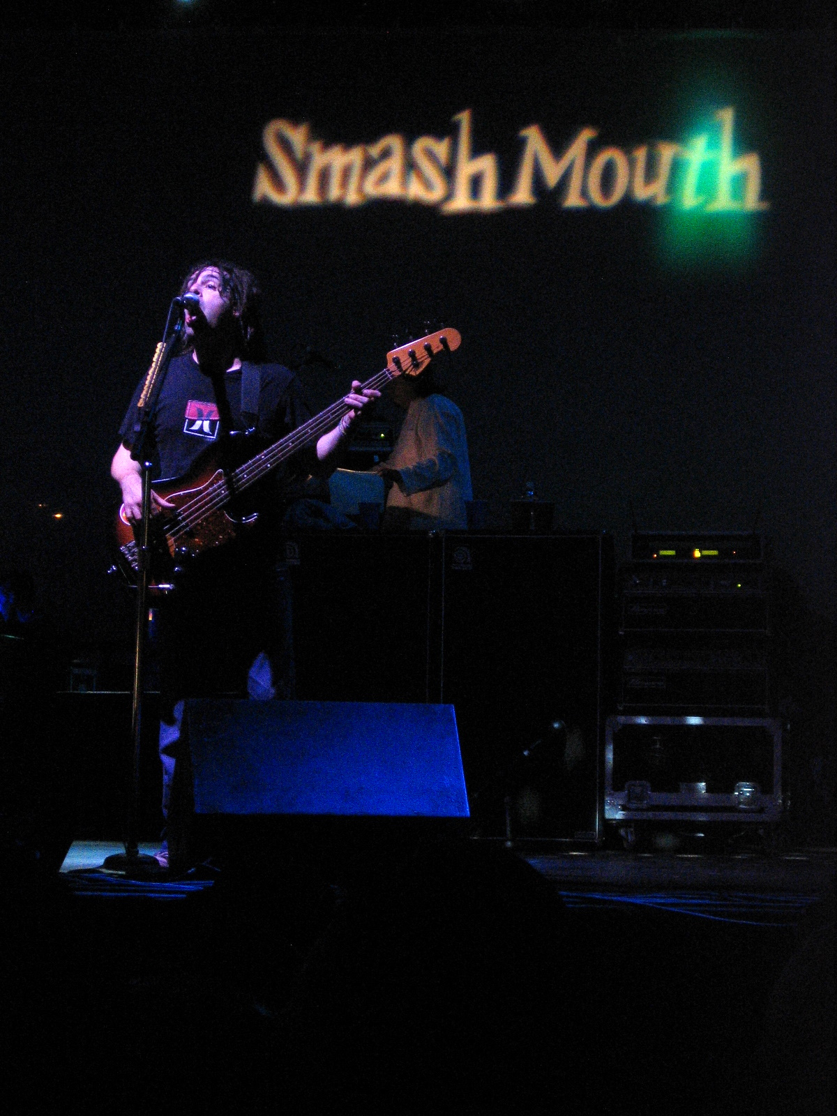 Smash Mouth - Paul DeLisle